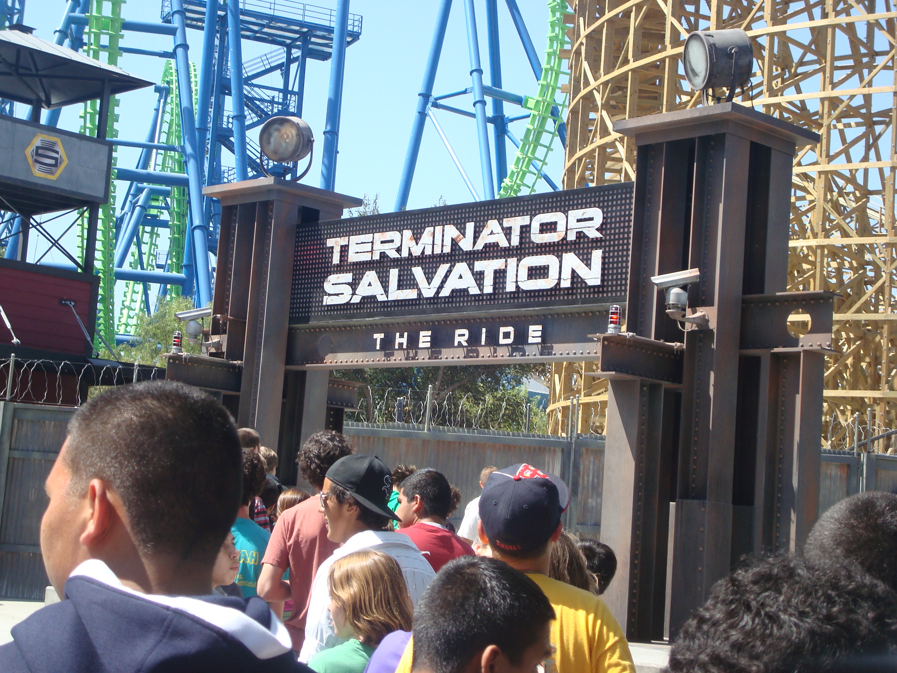 Terminator Salvation: The Ride on opening day